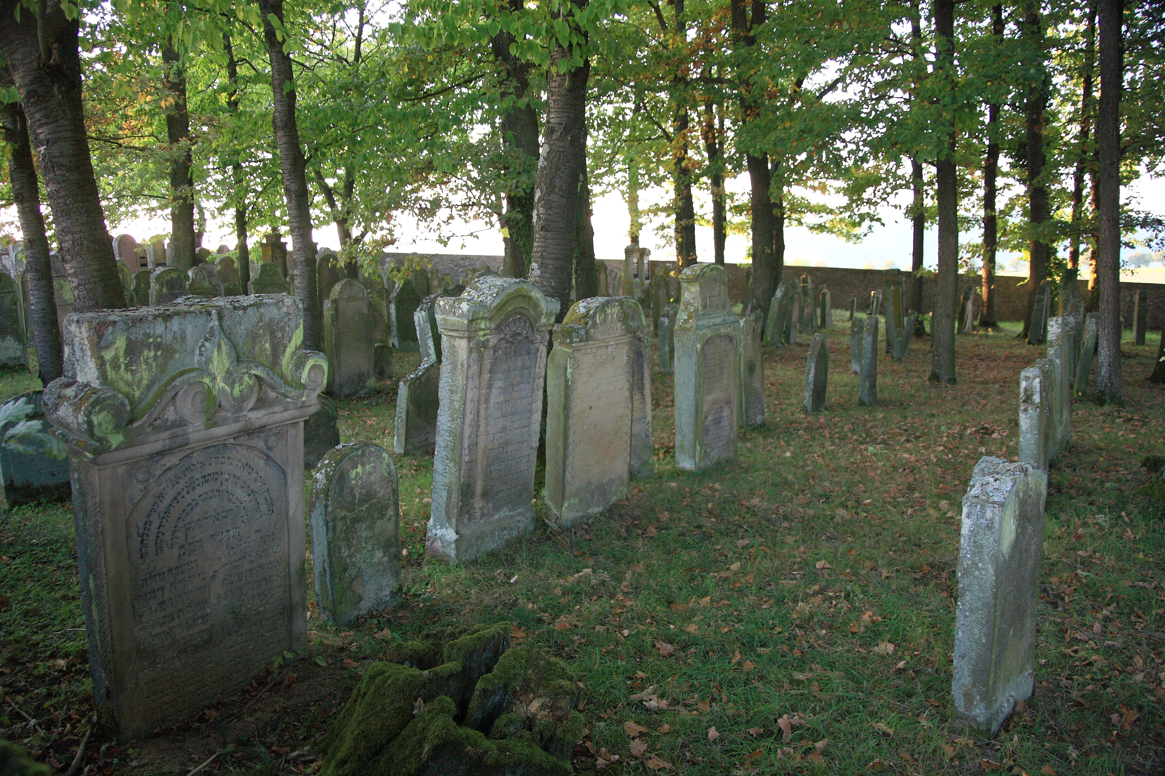 In the Jewish Cemetery of Weikersheim.